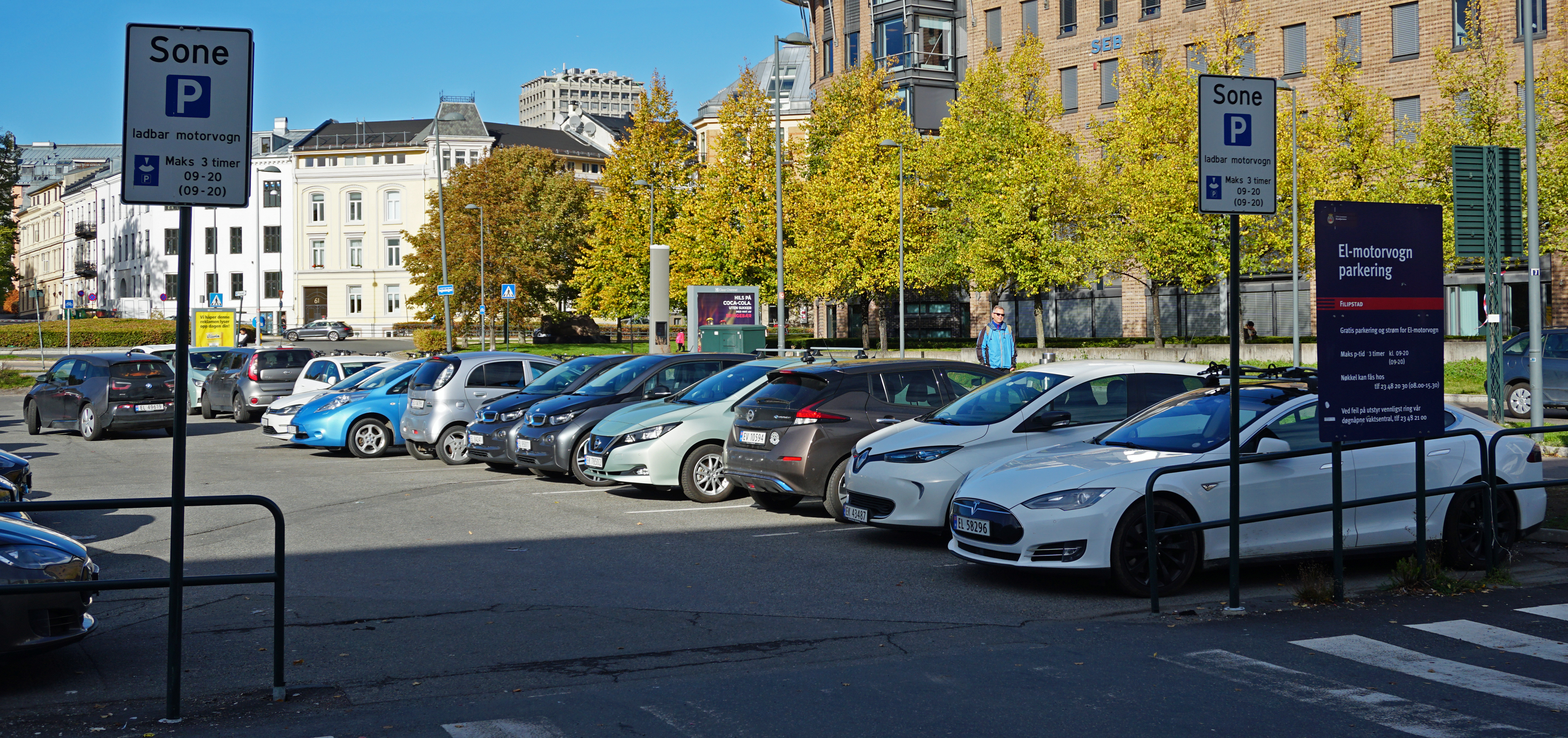 Dedicated parking lot for EVs in Oslo, Norway.